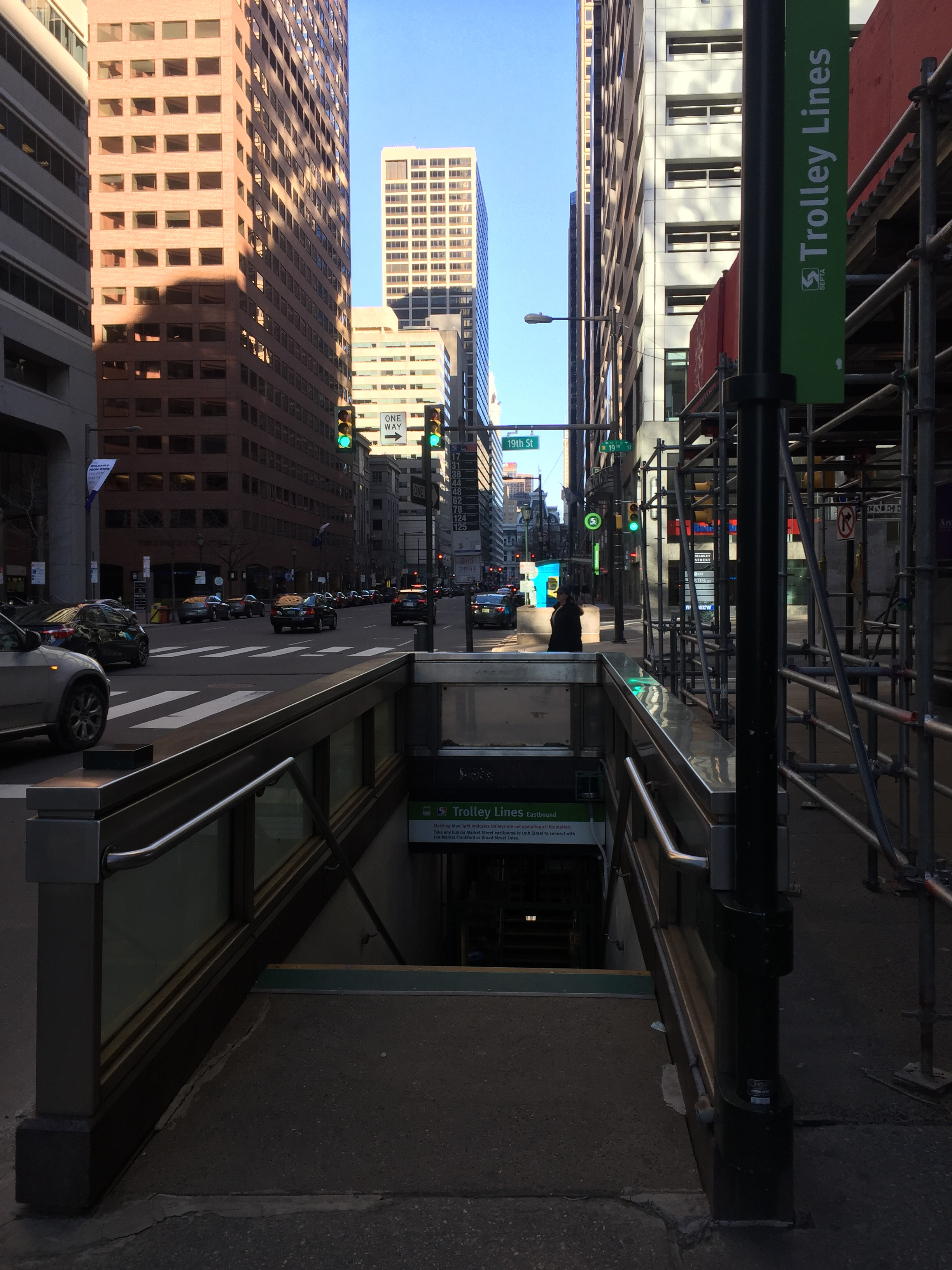 O19th street